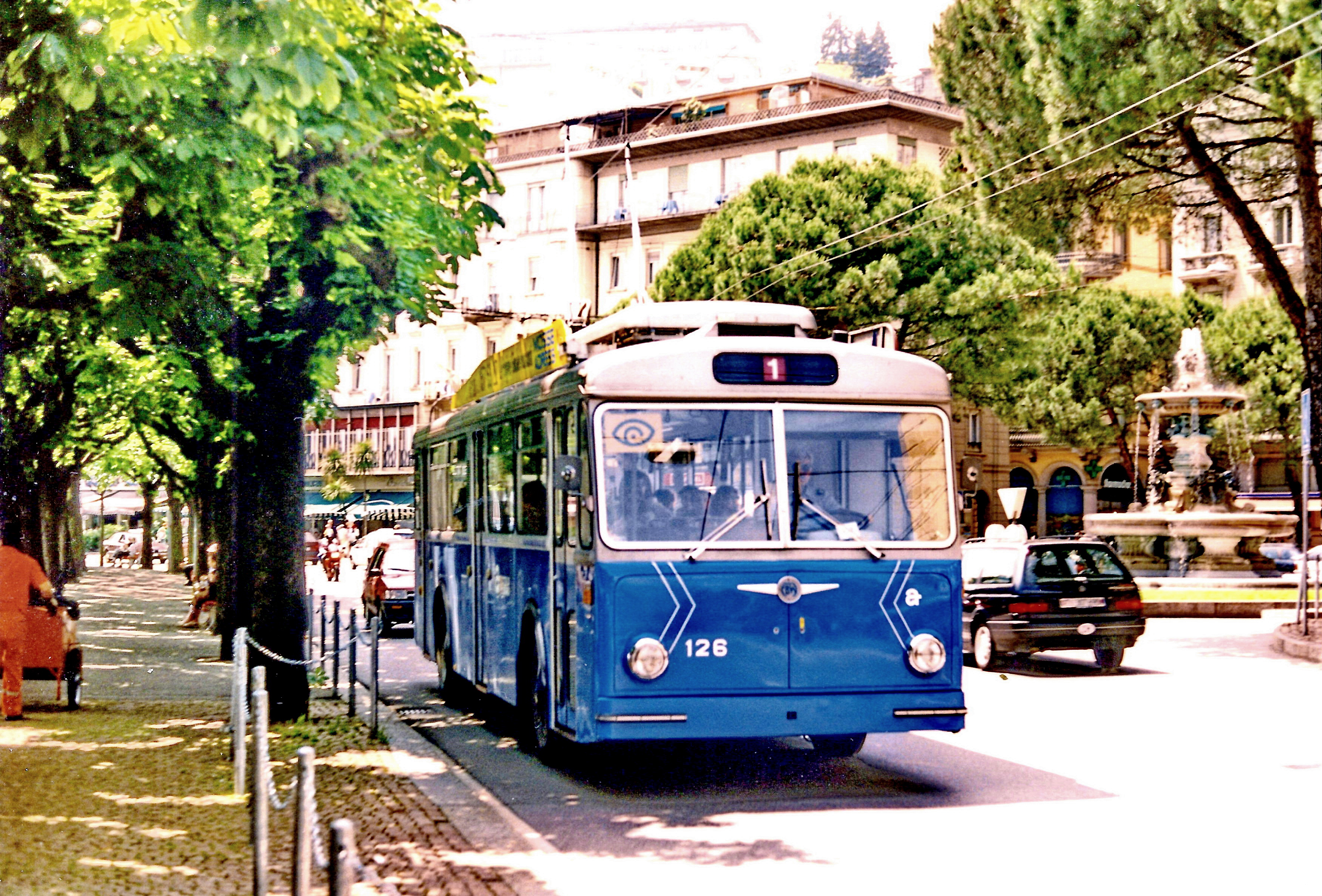 Lugano trolleybus 126, a Hess-bodied FBW built in 1966, was originally purchased new by the Rheintal (Rhine Valley) system, in Alstätten, where it was No. 6. After that system closed in 1977, No. 6 was sold in 1978 to Lugano, becoming No. 126 there. It is pictured eastbound on Riva Vincenzo Vela.